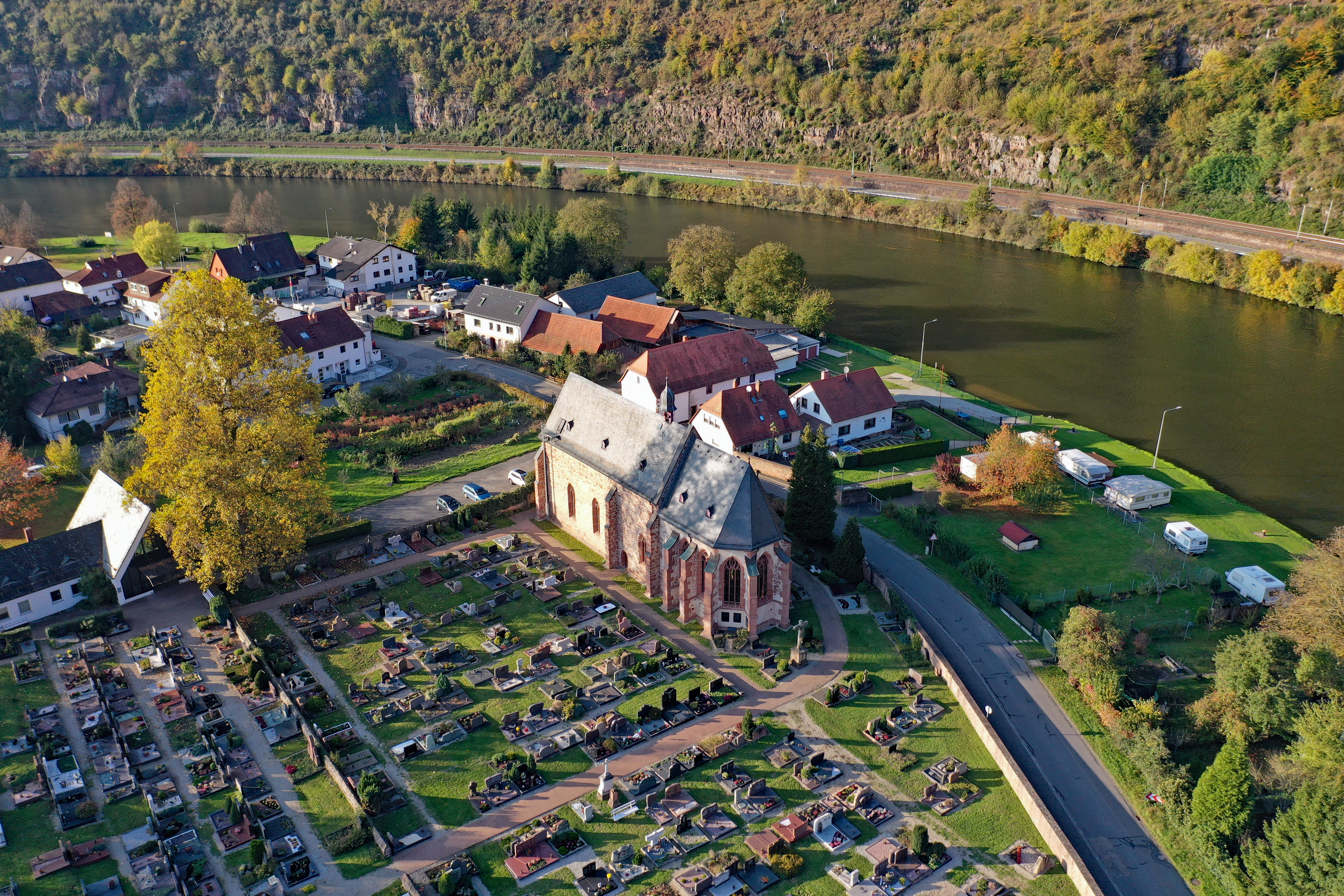 Ersheim Church (Hirschhorn (Neckar), Bergstraße, Hesse, Germany)